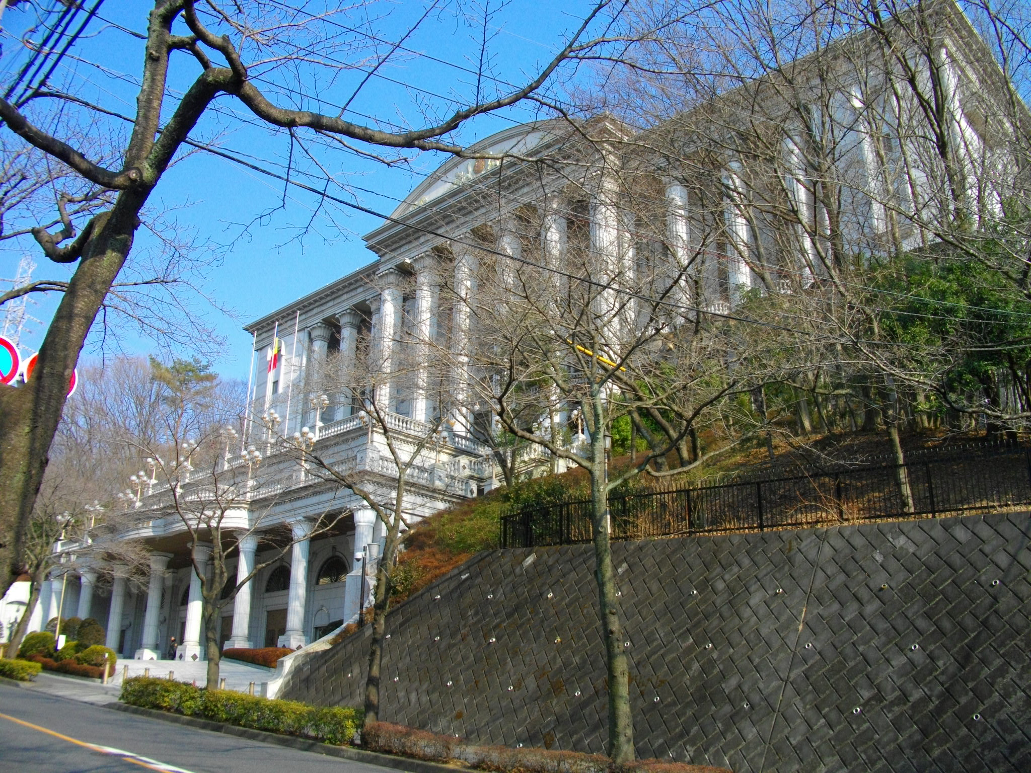 Tokyo Makiguchi Memorial Hall